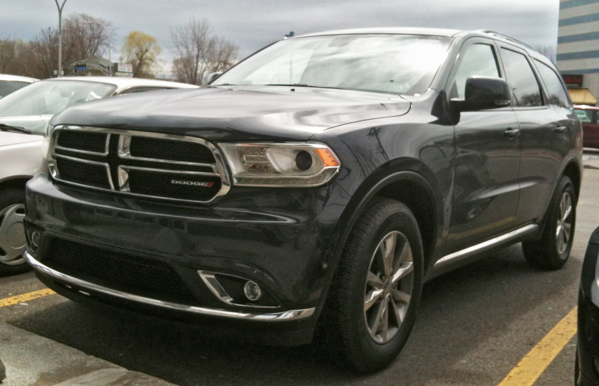 2014 Dodge Durango photographed in Pointe-Claire, Quebec, Canada.